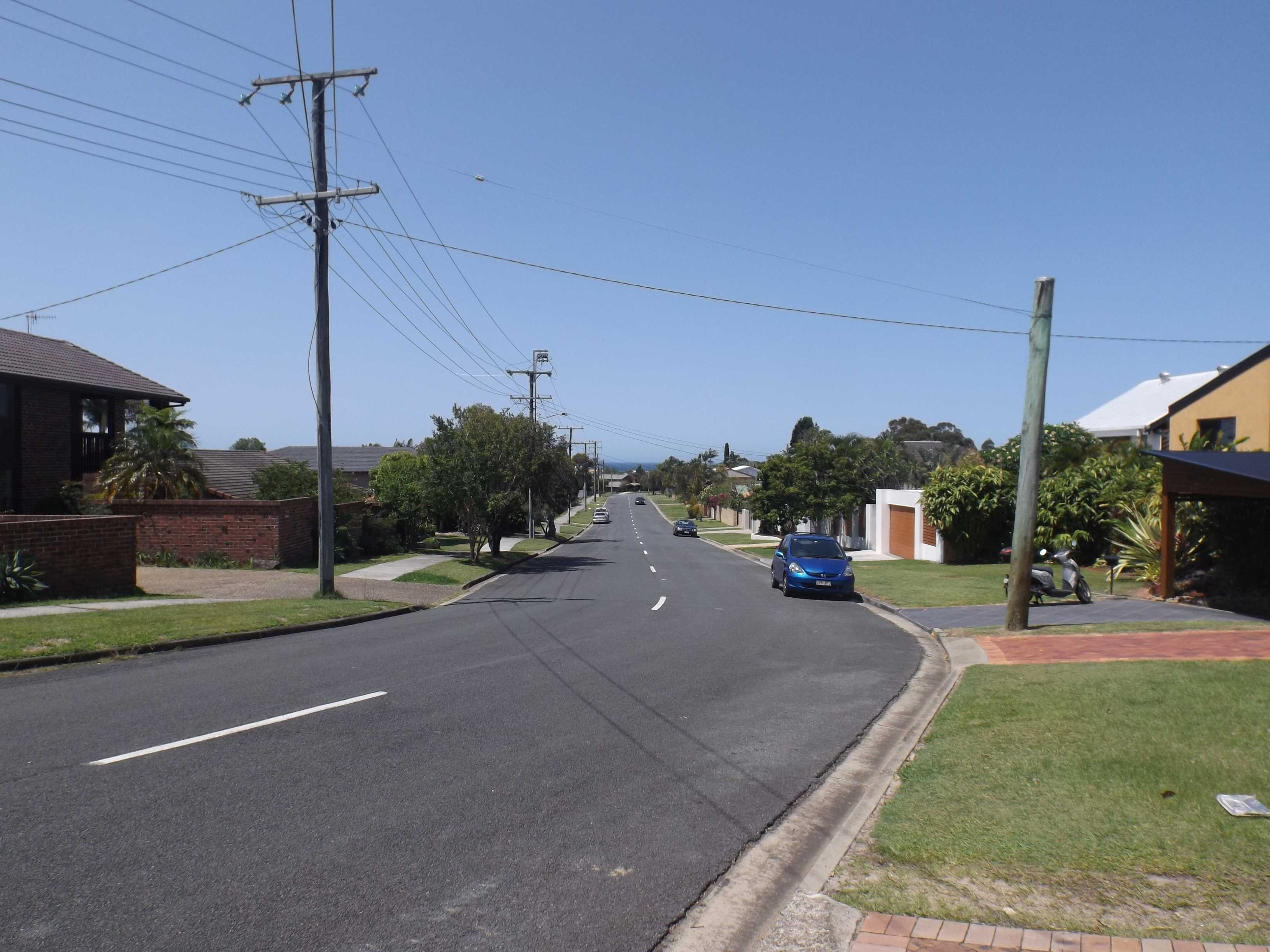 Photo of Seaview Parade at Elanora on the Gold Coast, Queensland, Australia.